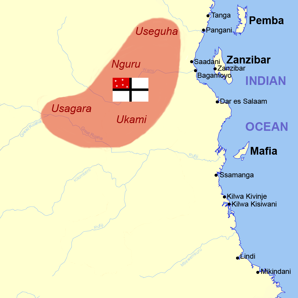 First german colonial region in east africa, 1885.